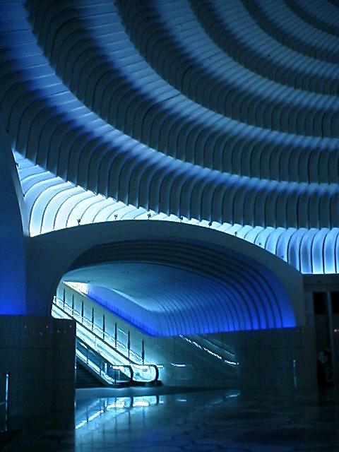 MOA entrance hall, Atami, Japan.